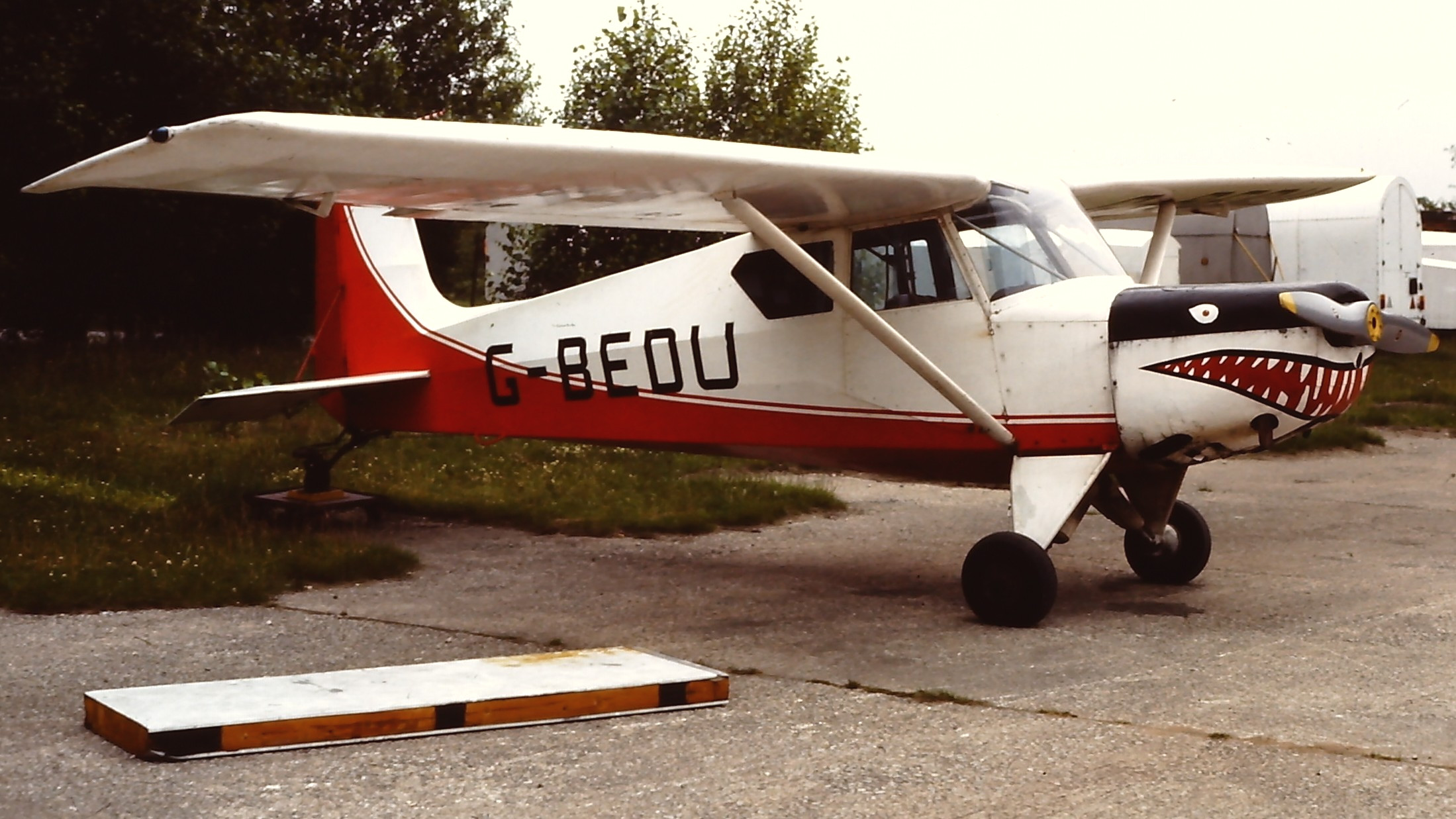 Scheibe SF-23C Sperling self launching motor glider at Doncaster Airport, Yorkshire, England.